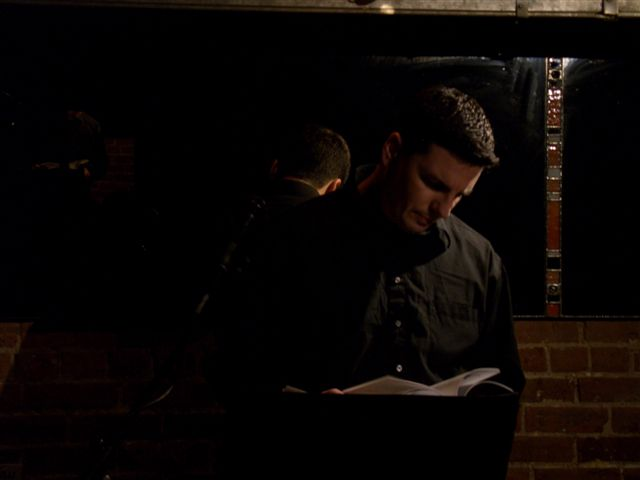 James Wagner reading his poems at Zinc Bar, April 30, 2006, New York City. Photograph by Jess Fanzo.